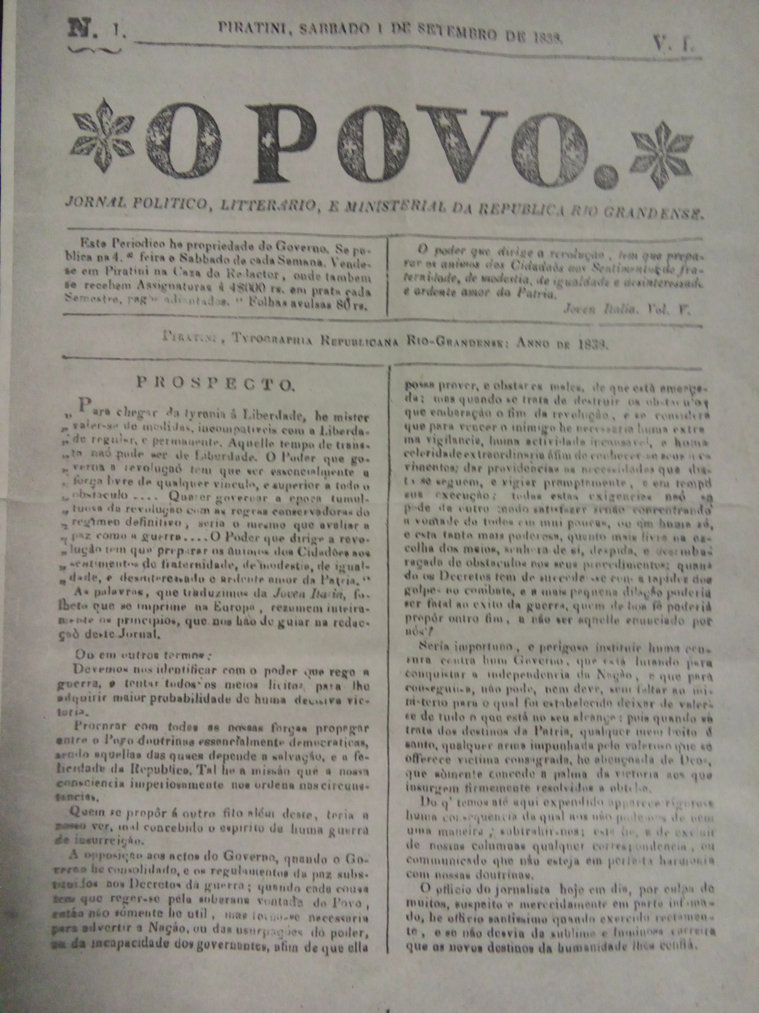 Cópia da 1° edição do jornal O Povo